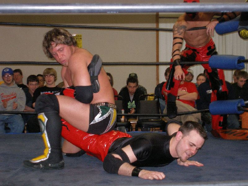 Chris Sabin applying a sharpshooter on Mike Quackenbush